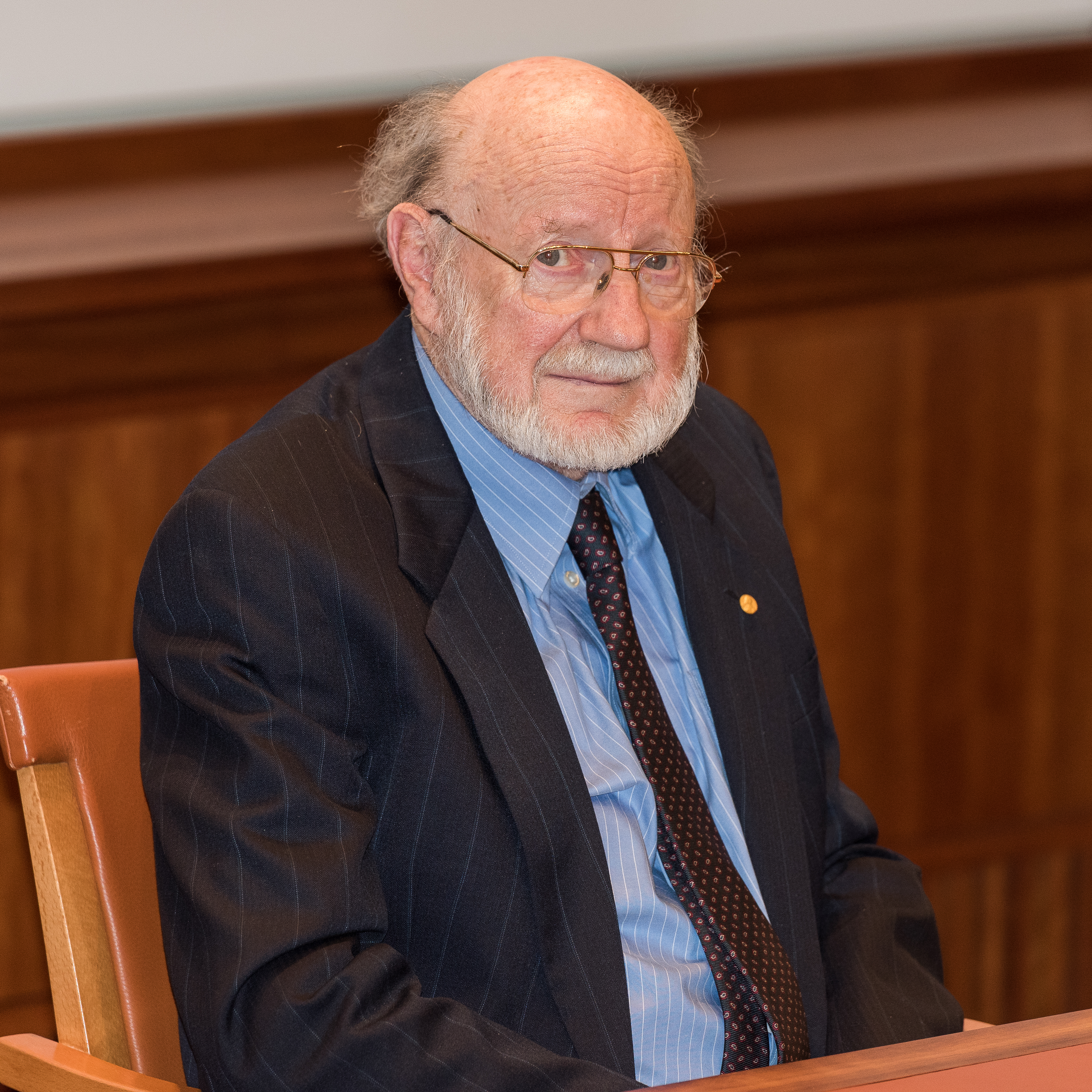 William C. Campbell, Nobel Laureate in medicine in Stockholm December 2015